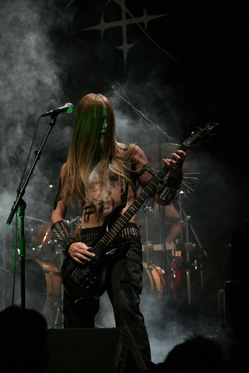 Picture from a concert at Rockefeller Music Hall in Oslo, September 24, 2005.